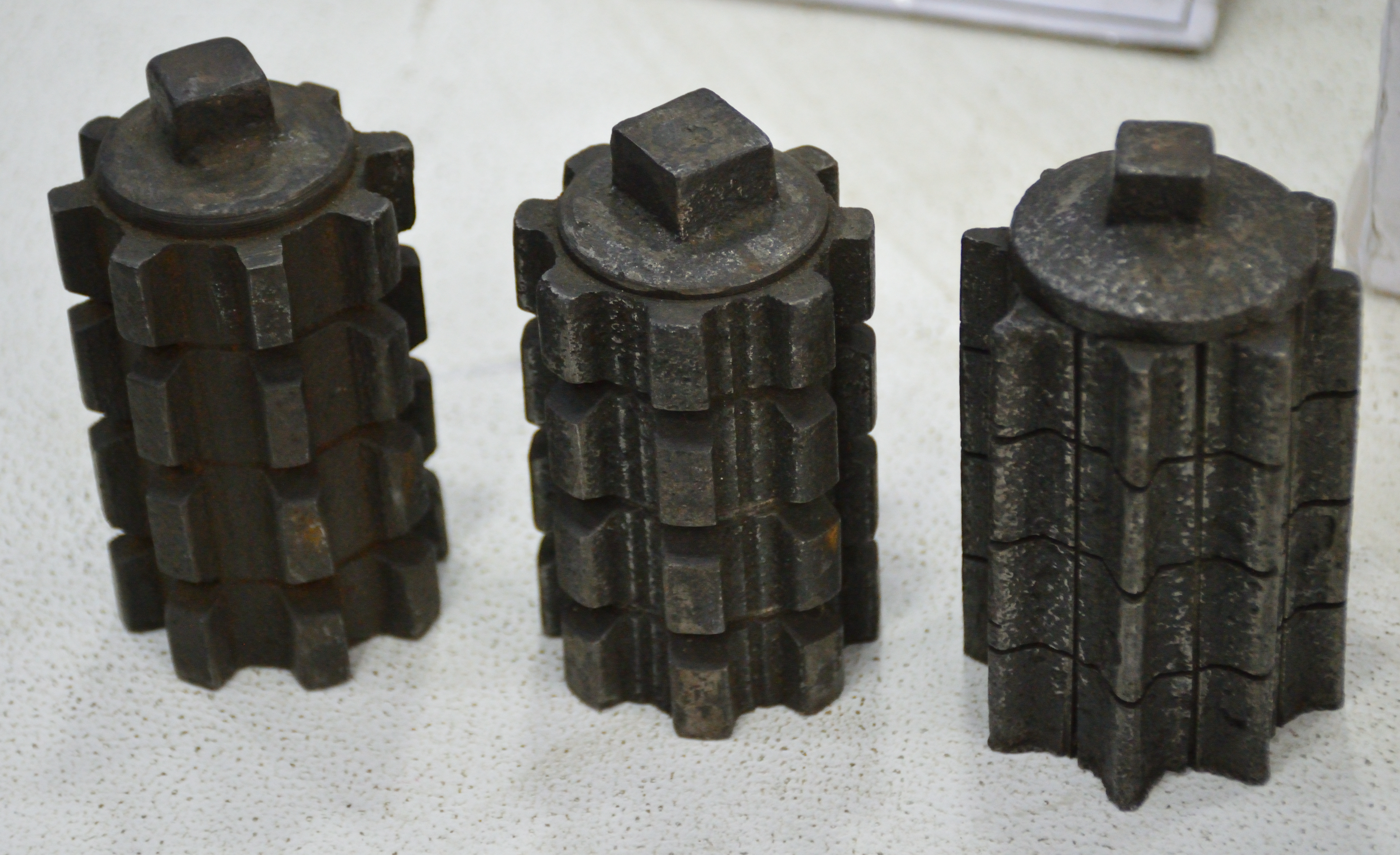 These three bomb shells of different moulds of cast iron manufactured in 1930 by the Jugantar party. This photograph was taken at the West Bengal Police pavilion, during the 41st International Kolkata Book Fair at Milan Mela Complex that organised by the Publishers & Booksellers Guild, Kolkata.